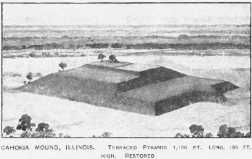 Artist's Reconstruction of Monks Mound at Cahokia.